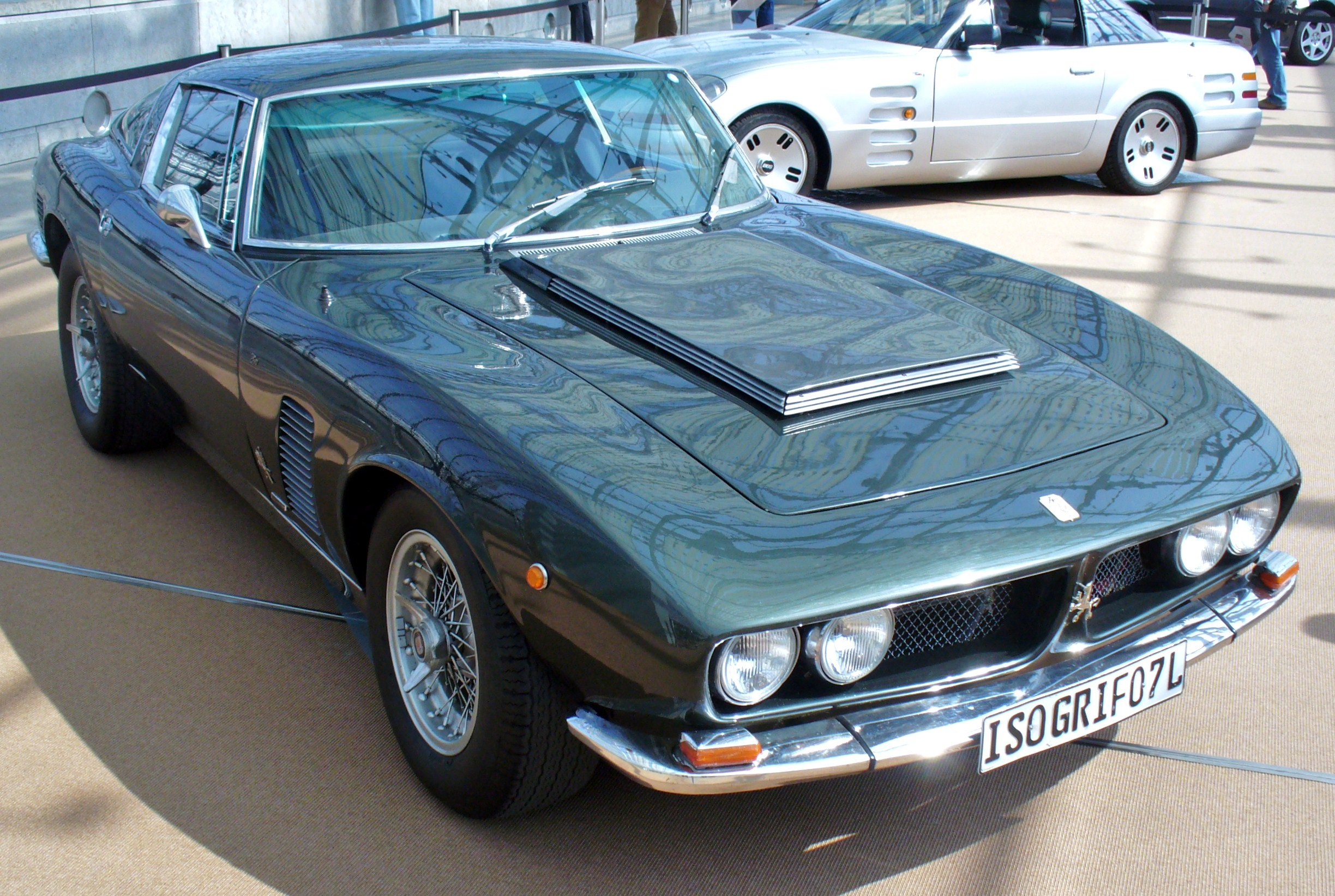 Iso Grifo